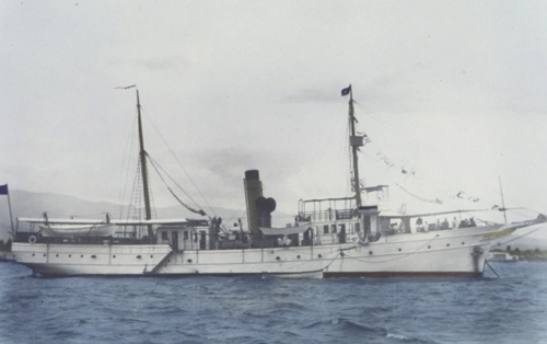 The first USC&GS Explorer was a steamer that served as a survey ship in the U.S. National Geodetic Survey.